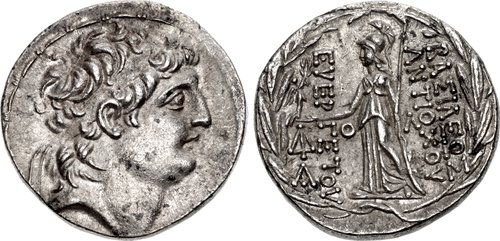 Cappadocian Tetradrachm in the Name of Antiochus VII. Ariarathes VII Philometor. Circa 107/6-101/0 BC. AR Tetradrachm (29mm, 16.61 g, 12h). Mint A (Eusebia-Mazaka). Struck circa 107/6-104/3 BC. Diademed head of Antiochos VII right / BAΣIΛEΩΣ ANTIOXOY EYEP-ΓETOY, Athena Nikephoros standing left; monogram above A to outer left, O to inner left, Λ to inner right; all within laurel wreath.